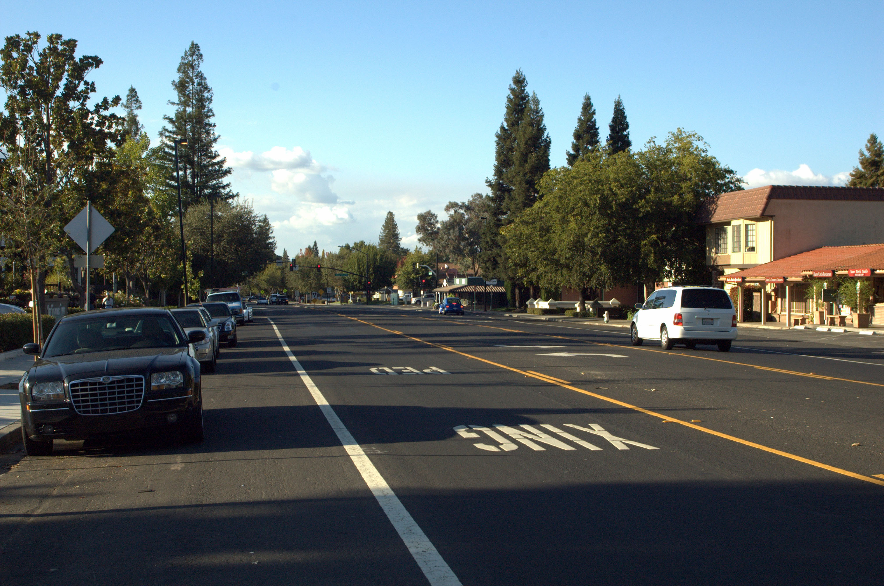 Picture of South Downtown Alamo, CA, facing North.